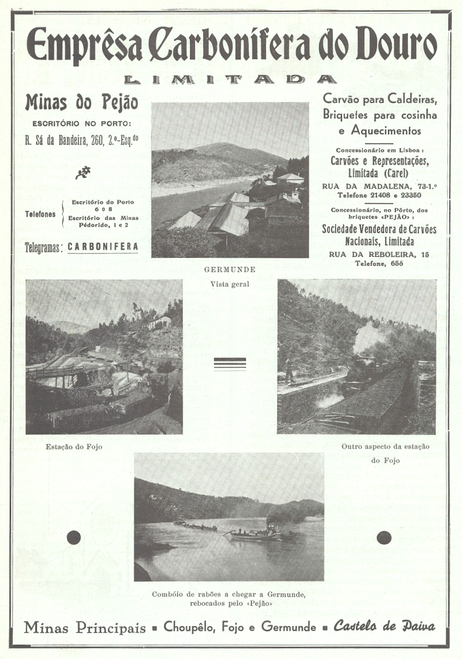 Advertsement of the Emprêsa Carbonífera do Douro (Douro Coal Company), that owned the Pejão coal mines and a railway from the mines to the docks on the Douro River, in the Castelo de Paiva municipality, in Portugal. This image was published on the Gazeta dos Caminhos de Ferro magazine No. 1304, of the 16th April 1942, and scanned by the Hemeroteca Municipal de Lisboa.